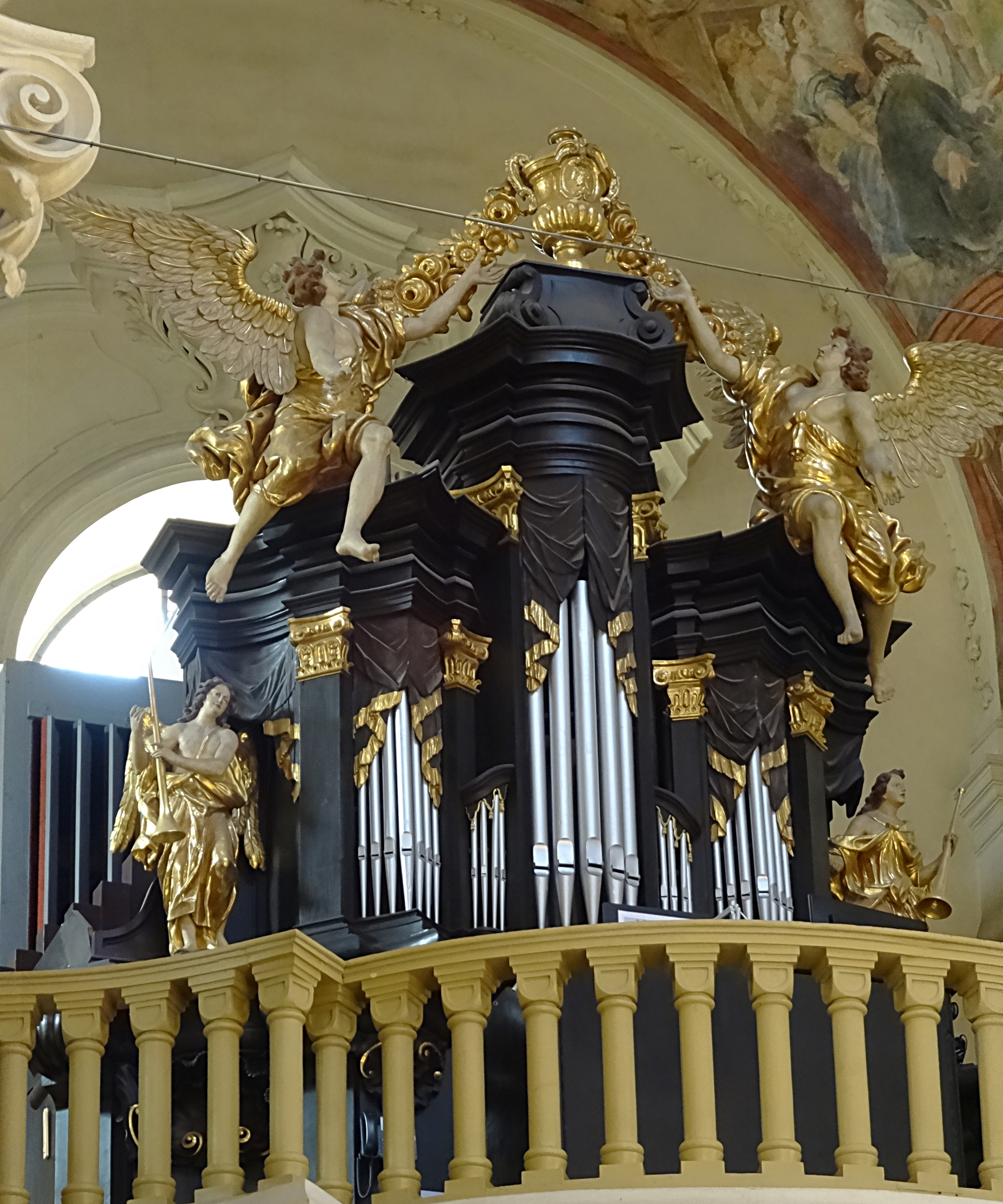 Organ in the Church of St. Nicholas (Prague Old Town) by Hans Heinrich Mundt (1685 IIP/16)